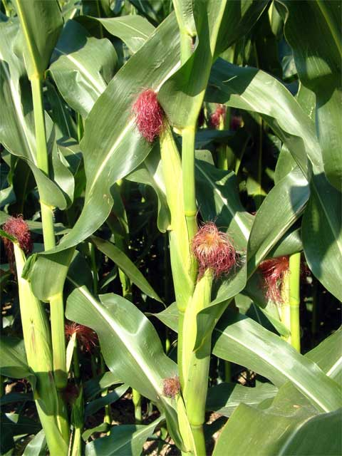 Maize (Zea mays) plant with ears, the baby corn growing level